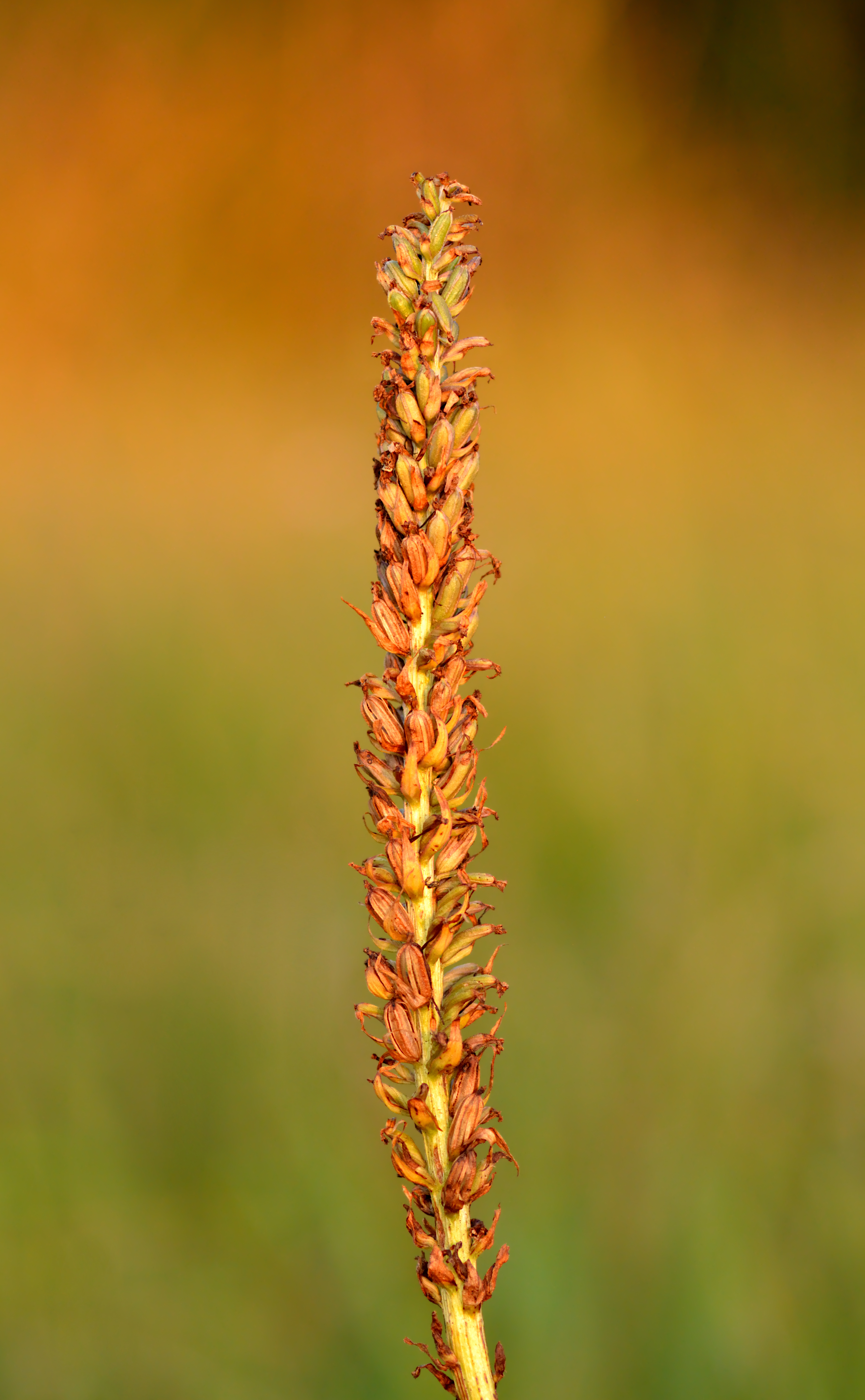 Infructescence of marsh fragrant-orchid